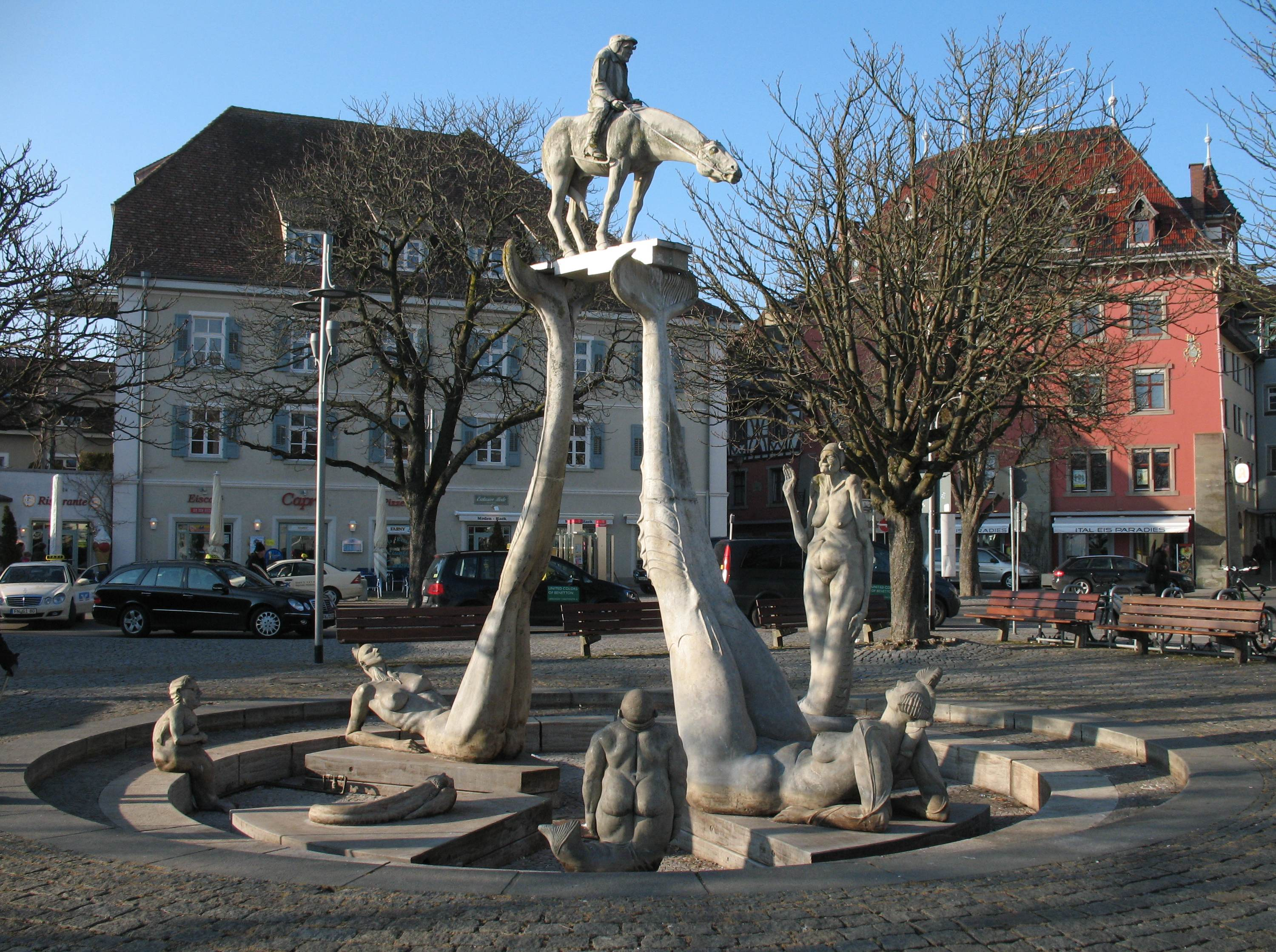 Fountain by Peter Lenk in Überlingen in Baden-Württemberg, Germany